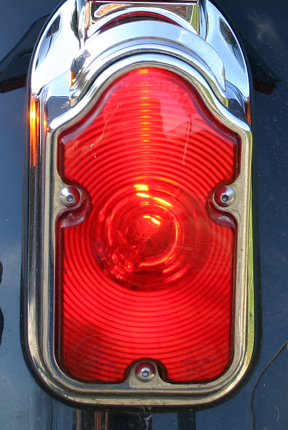 Tombstone taillight.